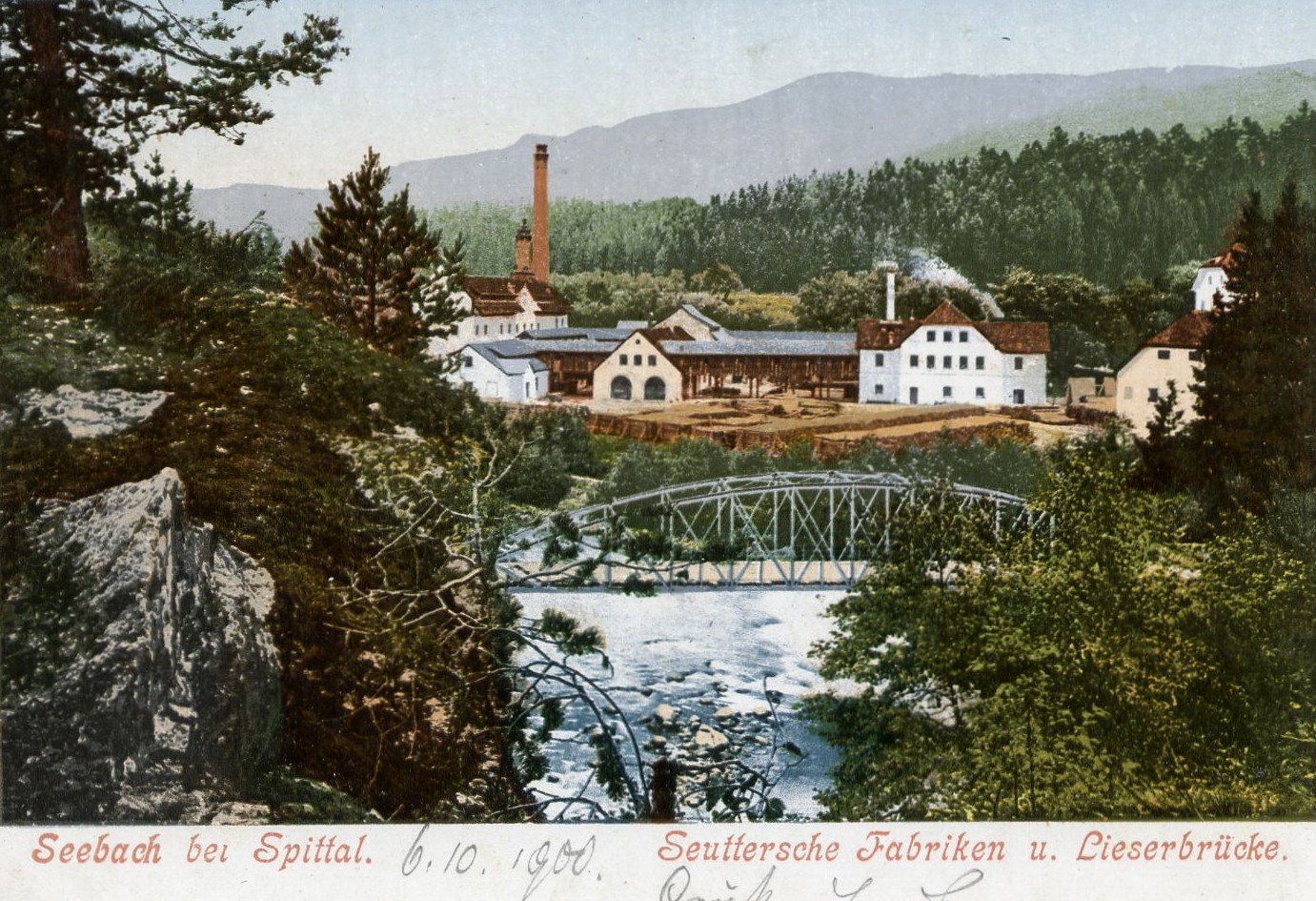 Iron bridge near Seeboden / Lake Millstatt (Millstätter See), district Spittal an der Drau in Carinthia / Austria / Middle Europe / EU.